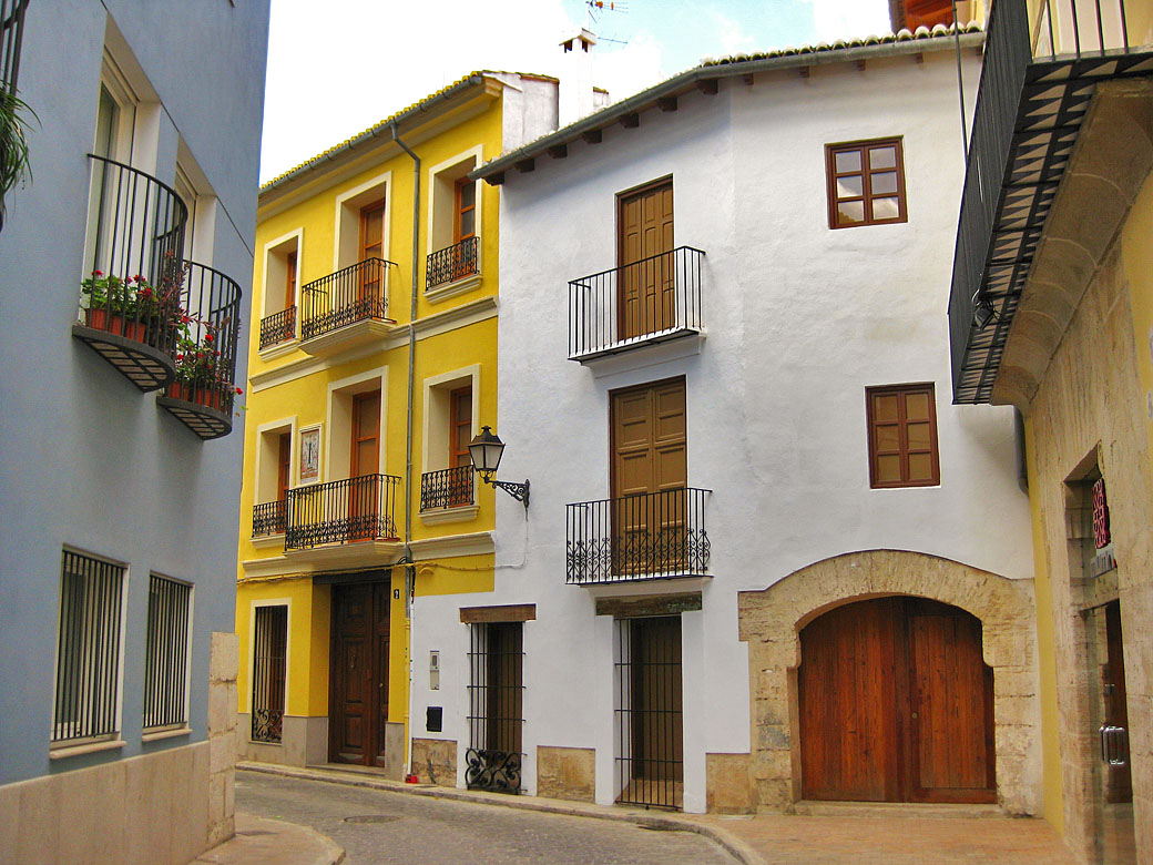 Cases i carrers d'Alzira, Ribera Alta, País Valencià. Streets of Alzira, a city to the south of Valencia, Spain.